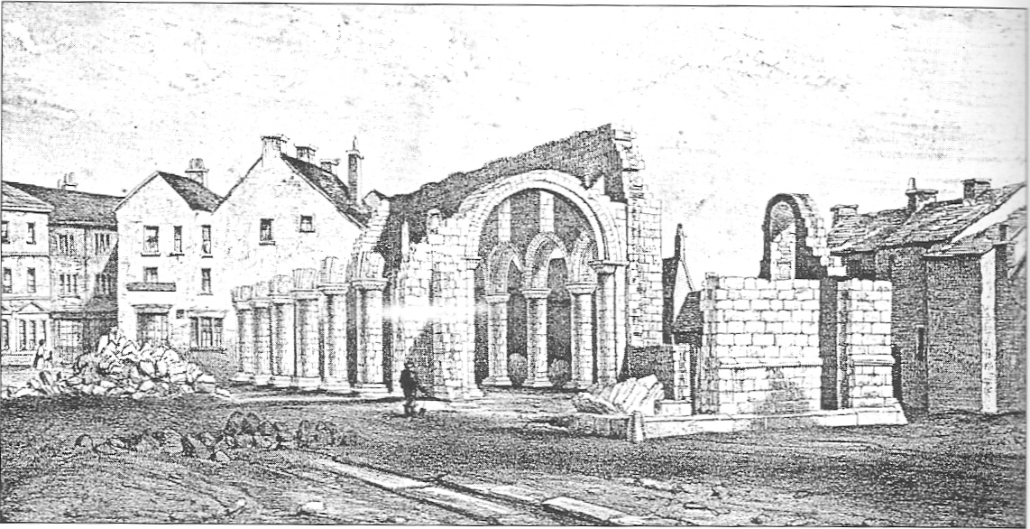 The remains of St Mary Magdalene parish church, Doncaster, Yorkshire, during demolition in 1846